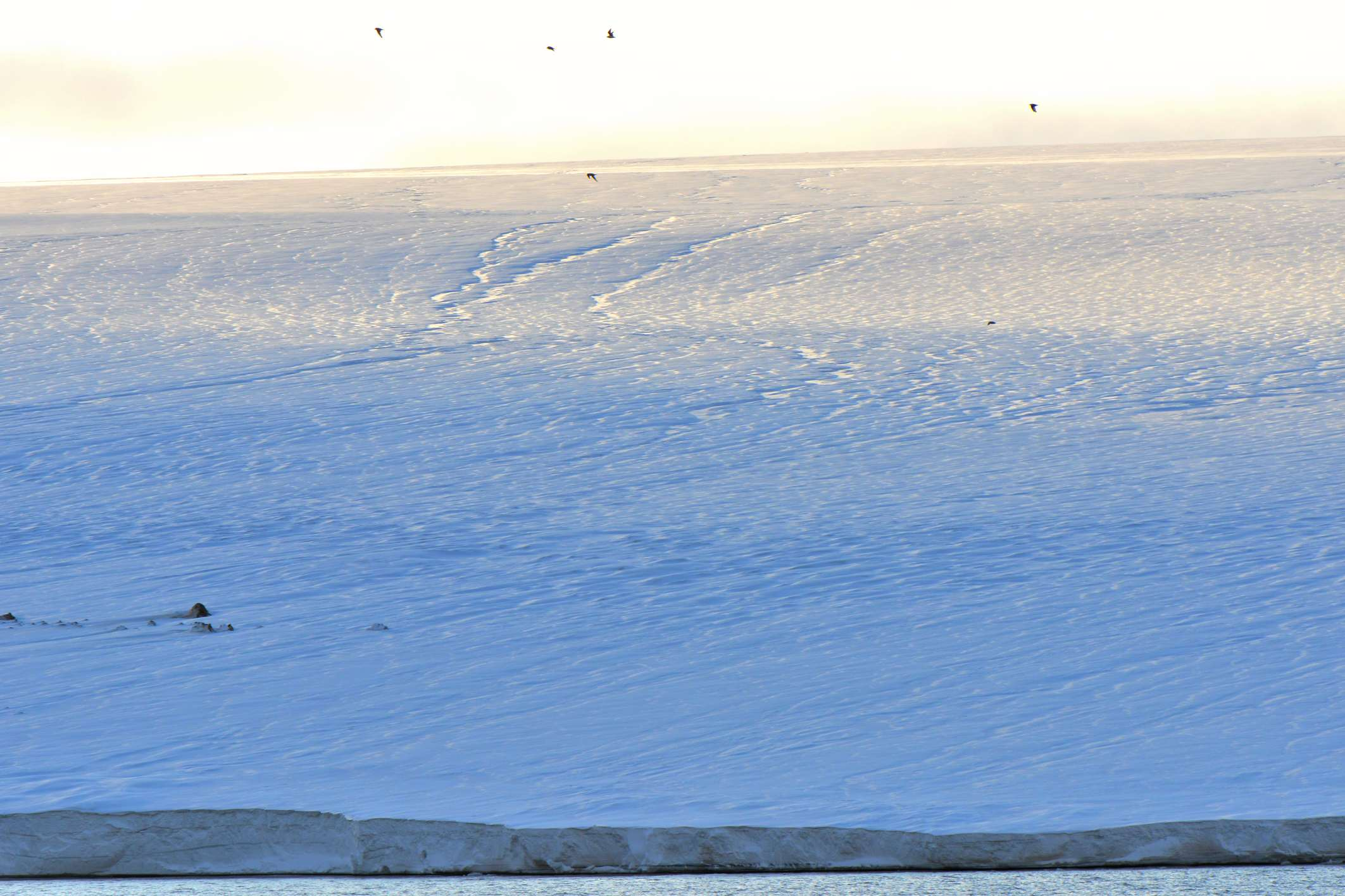 Zhuravlev Bay, Academy of Sciences Icecap (Komsomolets Island, Severnaya Semlya, Russia)